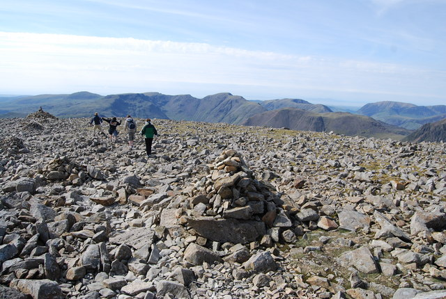 Cairns marking the way, Scafell Pike